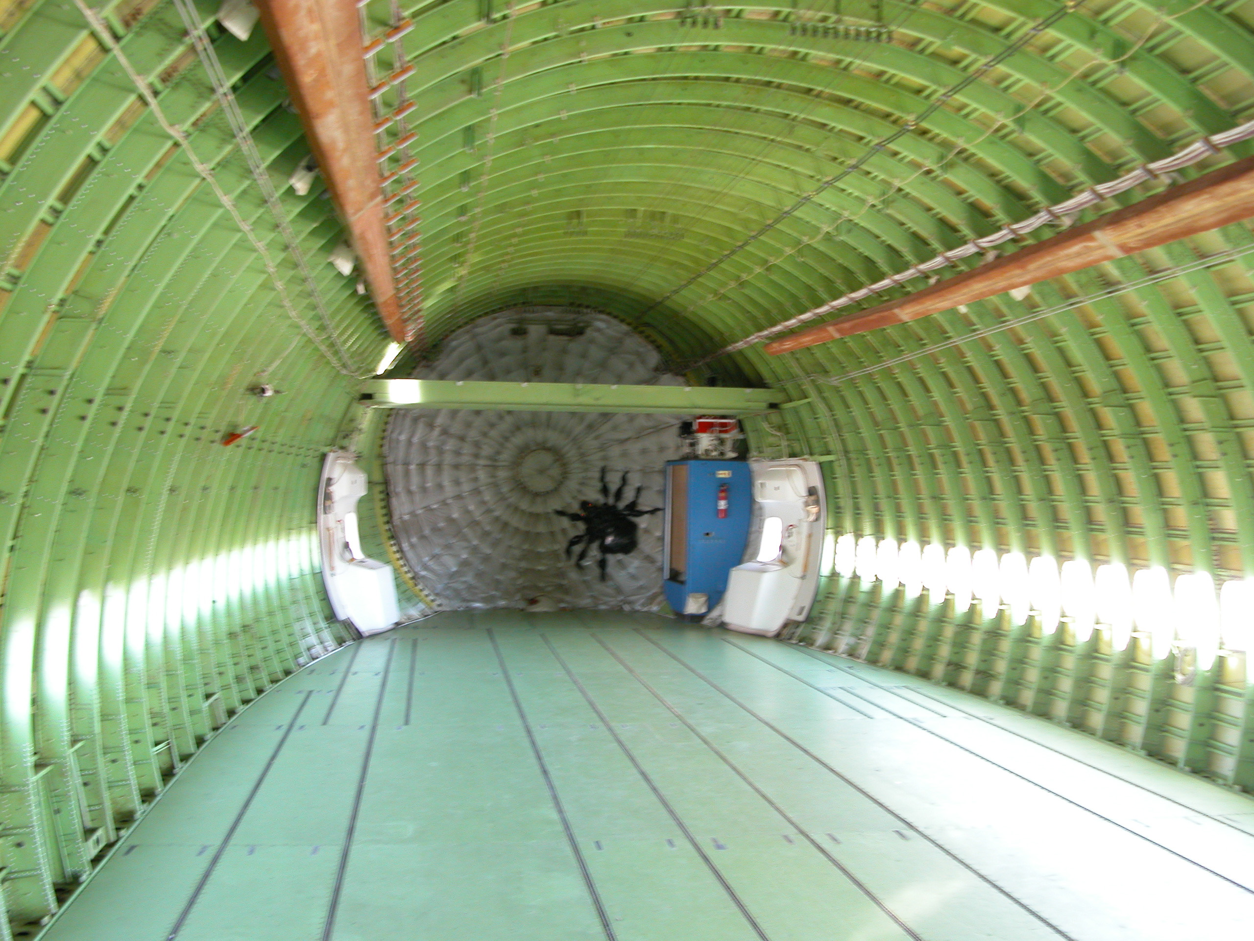 Aft end of the interior of NASA's 747 Shuttle Carrier Aircraft N905NA at Dryden Flight Research Center. Note the stuffed spider on the aft pressure bulkhead...NASA techs have a sense of humor!